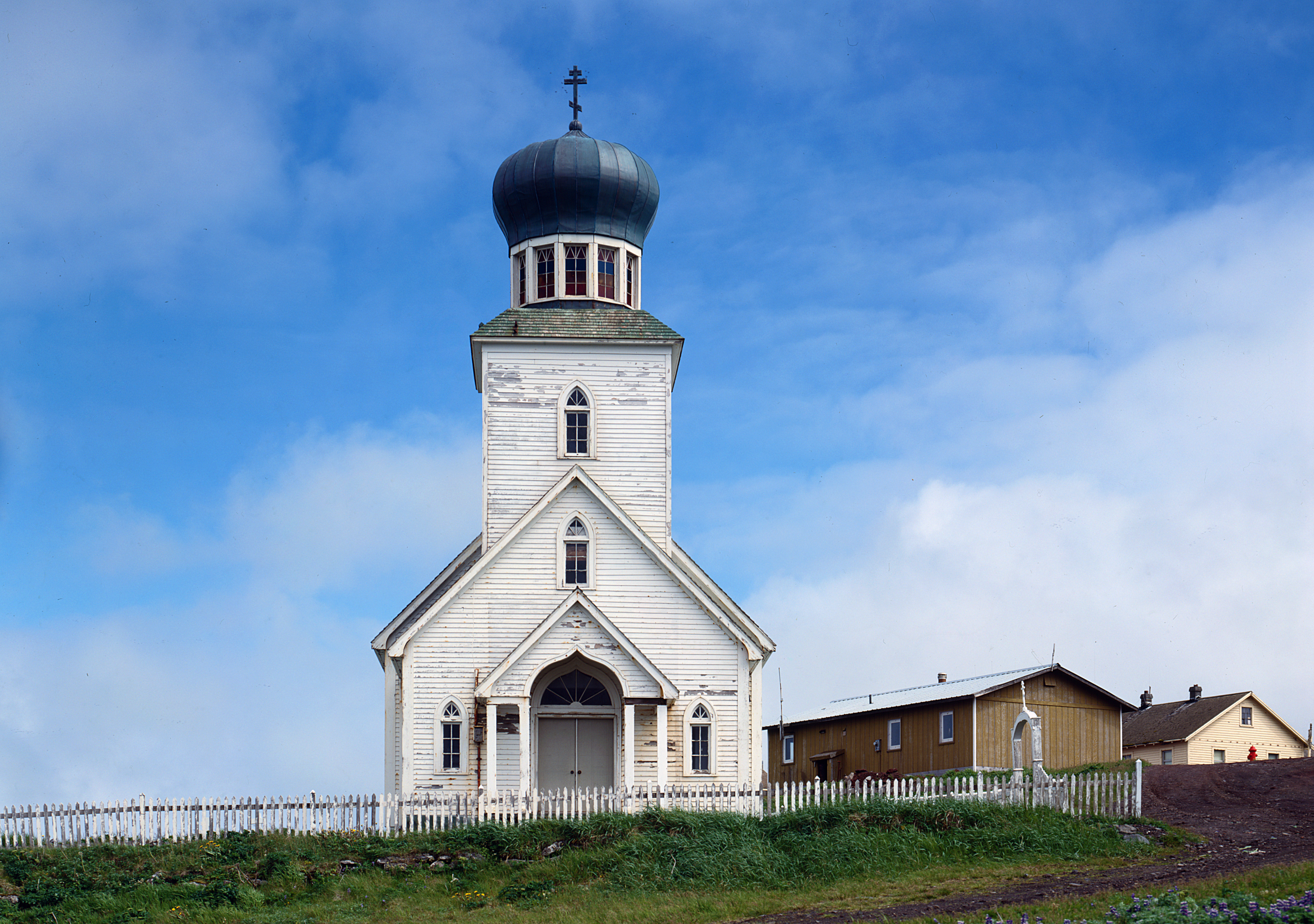 St. George Russian Orthodox Church, St. George Island, Pribolof Islands, Alaska, USA. Cropped, spotted.